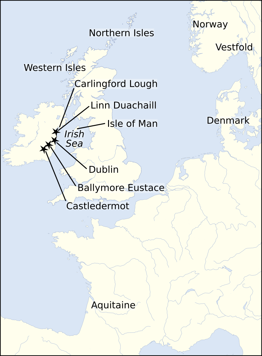 A map created for the English Wikipedia article Tomrair. The map shows some locations mentioned in the article.